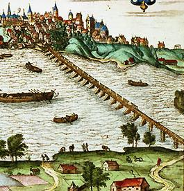 View of Warsaw near the end of the 16th century. Detail showing the Sigismundus Augustus Bridge.